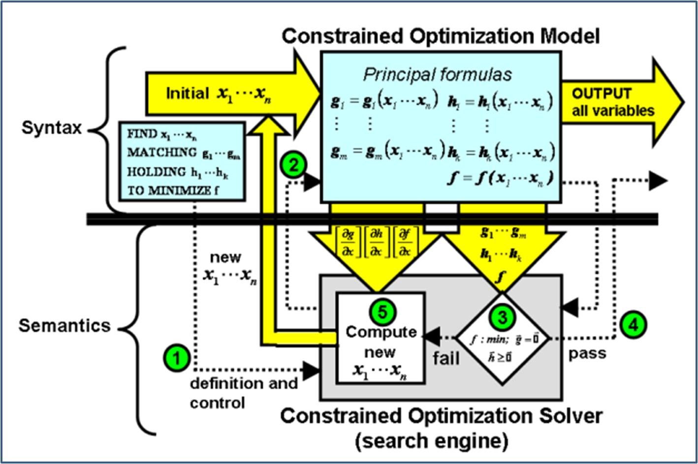 This is a syntax/semantics profile of an iterative MetaCalculus Constrained Optimization holon process.